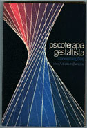 The first book of Vera Felicidade de Almeida Campos on Psychotherapy